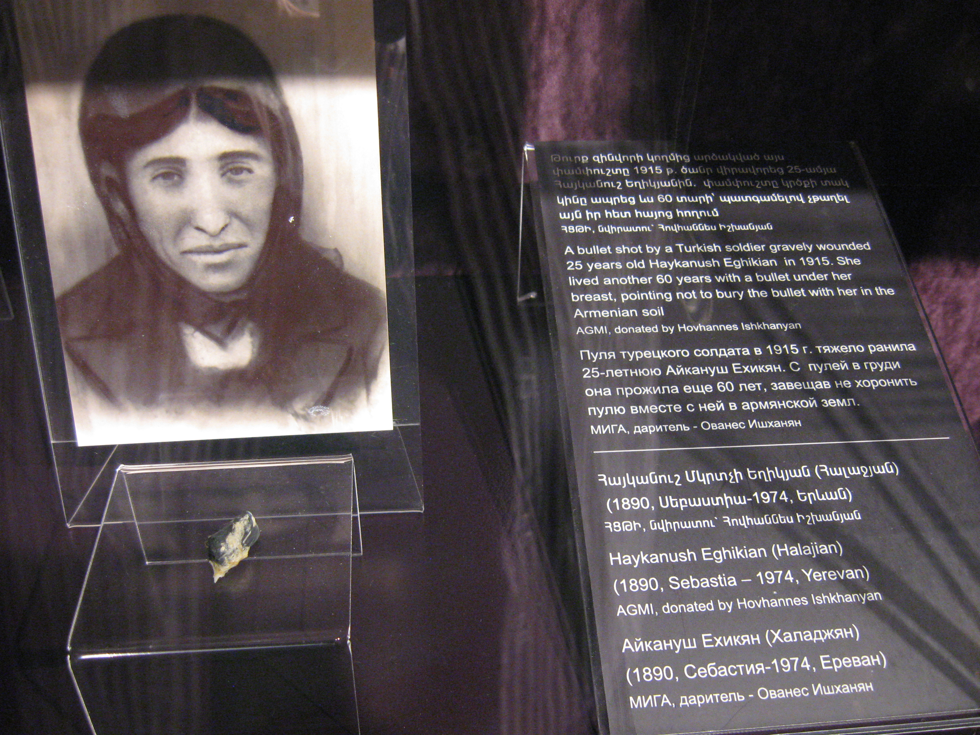 A bullet shot by a Turkish soldier gravely wounded 25 years old Haykanush Eghikian in 1915. She lived another 60 years with a bullet under her breast, pointing not to bury the bullet with her in the Armenian soil.